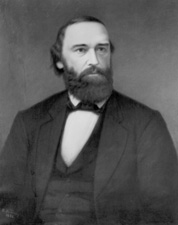 From the U.S. Senate historical office